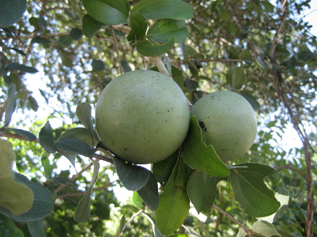 The dried fruit pulp of Strychnos madagascariensis is an important food in times of hunger in Machaze district of Mozambique. Local name of the fruit: "Macuacua"; tree: "Mucuacua"